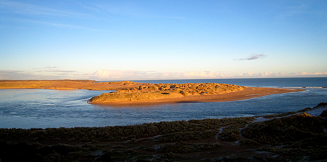 The mouth of the River Ythan at Newburgh, draining into the North Sea